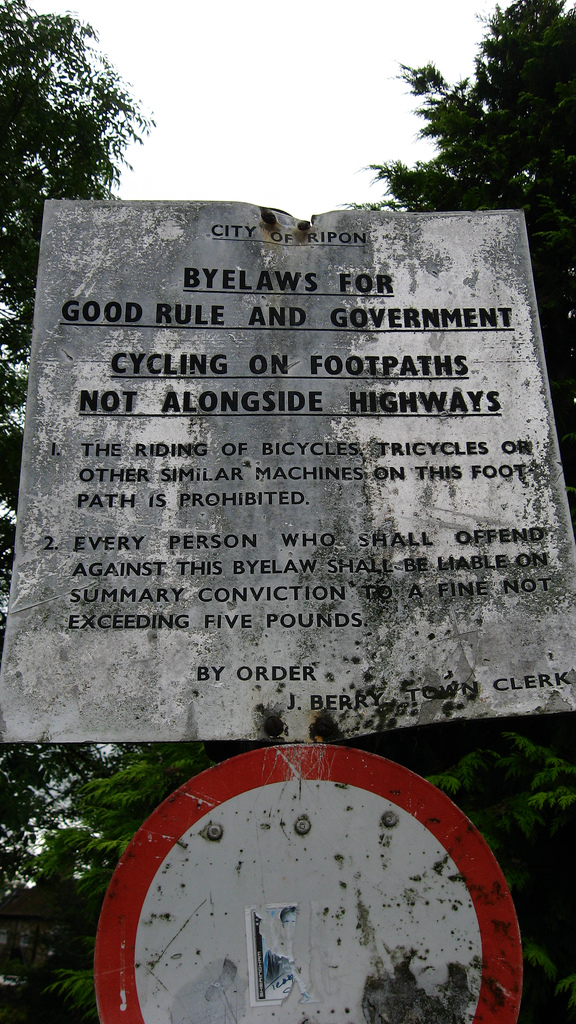 Sign in a car park in Ripon, North Yorkshire